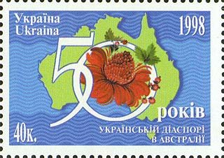 Stamp of Ukraine